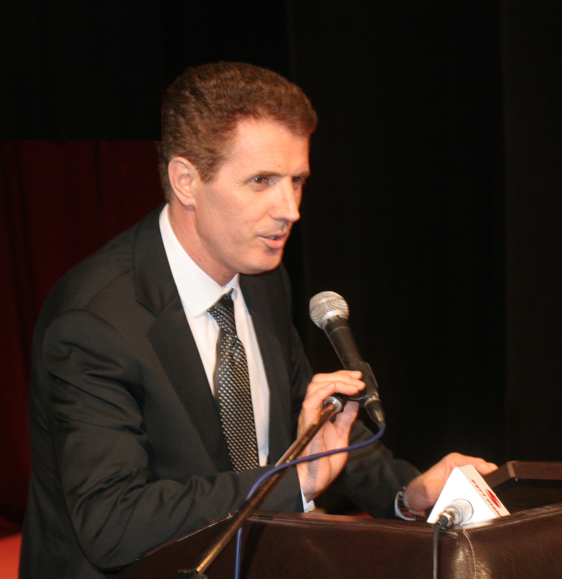 Gjekë Marinaj answering questions at a speaking engagement at the Poetry Festival of Gjakovë, Kosovo, 2011 (Photo by Blerim Valla) This photo may be used by anyone for private or commercial use if the author and source are properly credited.